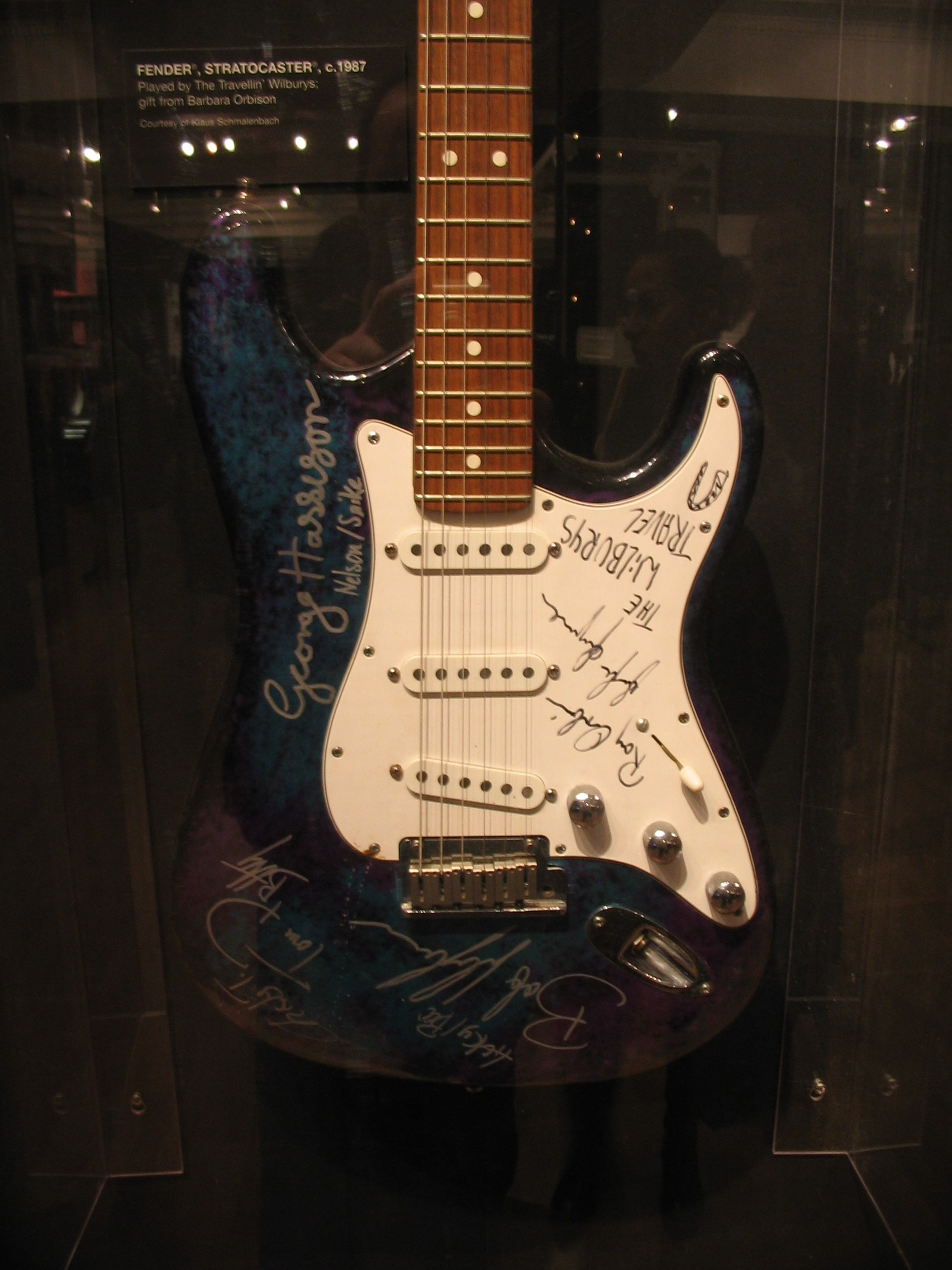 Wilburys leave their mark Fender Stratocaster (1987) Played by The Travellin' Wilburys